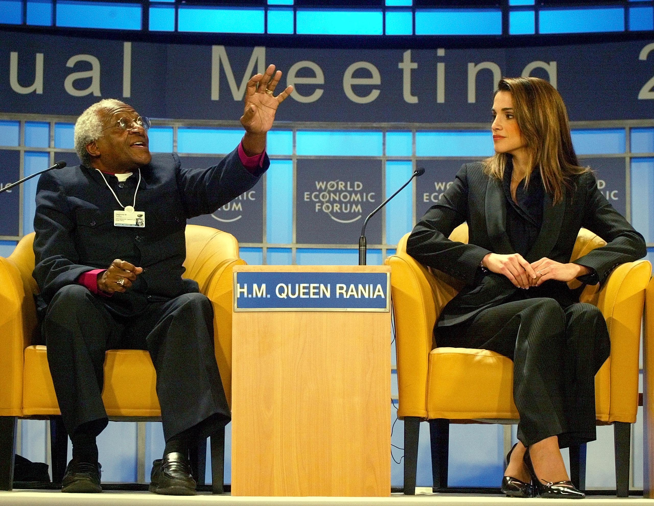 NEW YORK,31JAN02 Desmond M. Tutu (left), Archbishop Emeritus of South Africa, gestures while H.M. Queen Rania of Jordan (right) listens during a session of the 32nd Annual Meeting of the World Economic Forum at the Waldorf-Astoria hotel in New York January 31, 2002. The session was simply titled "For Hope".